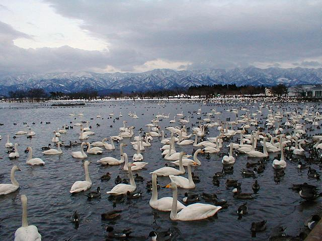 A landscape of Lake Hyōko